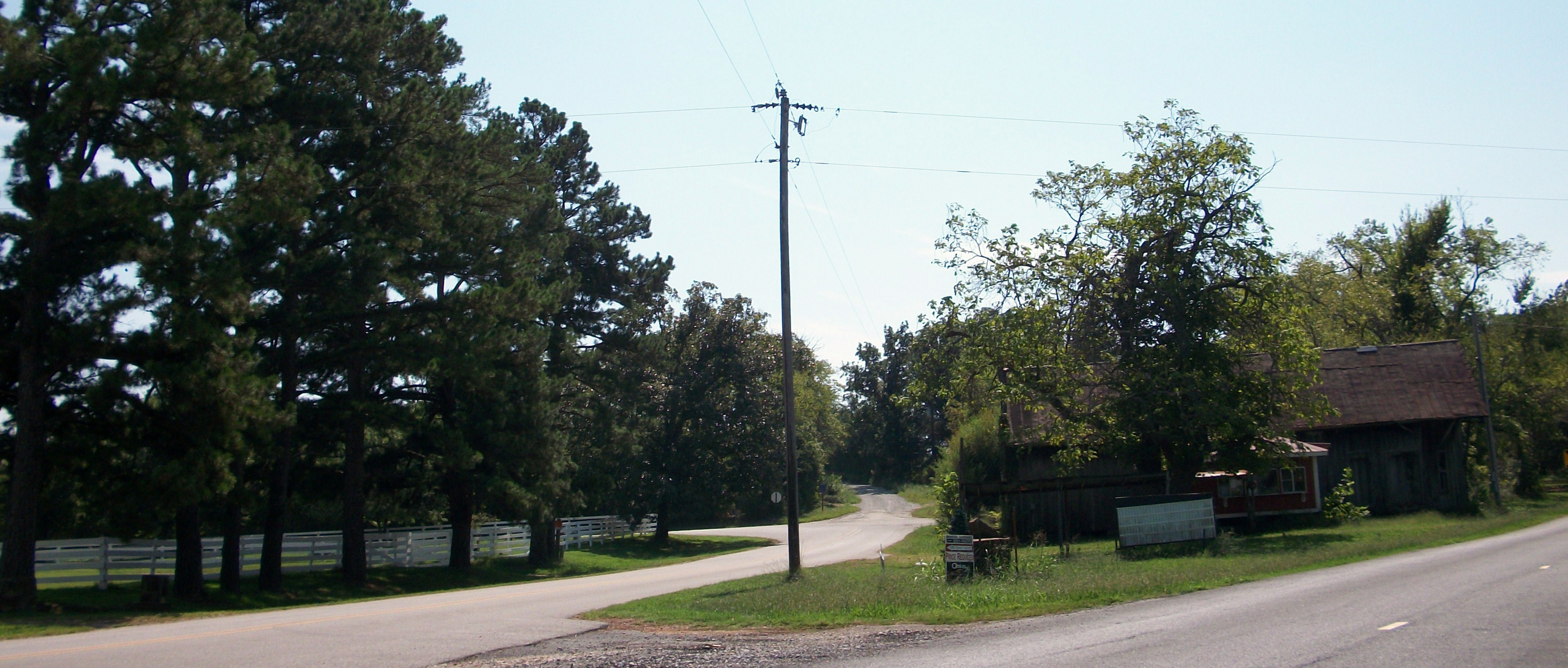 Clyde, Arkansas located at the intersection of Arkansas Highway 45 and Washington County Route 8. This photo is facing south on AR 45.